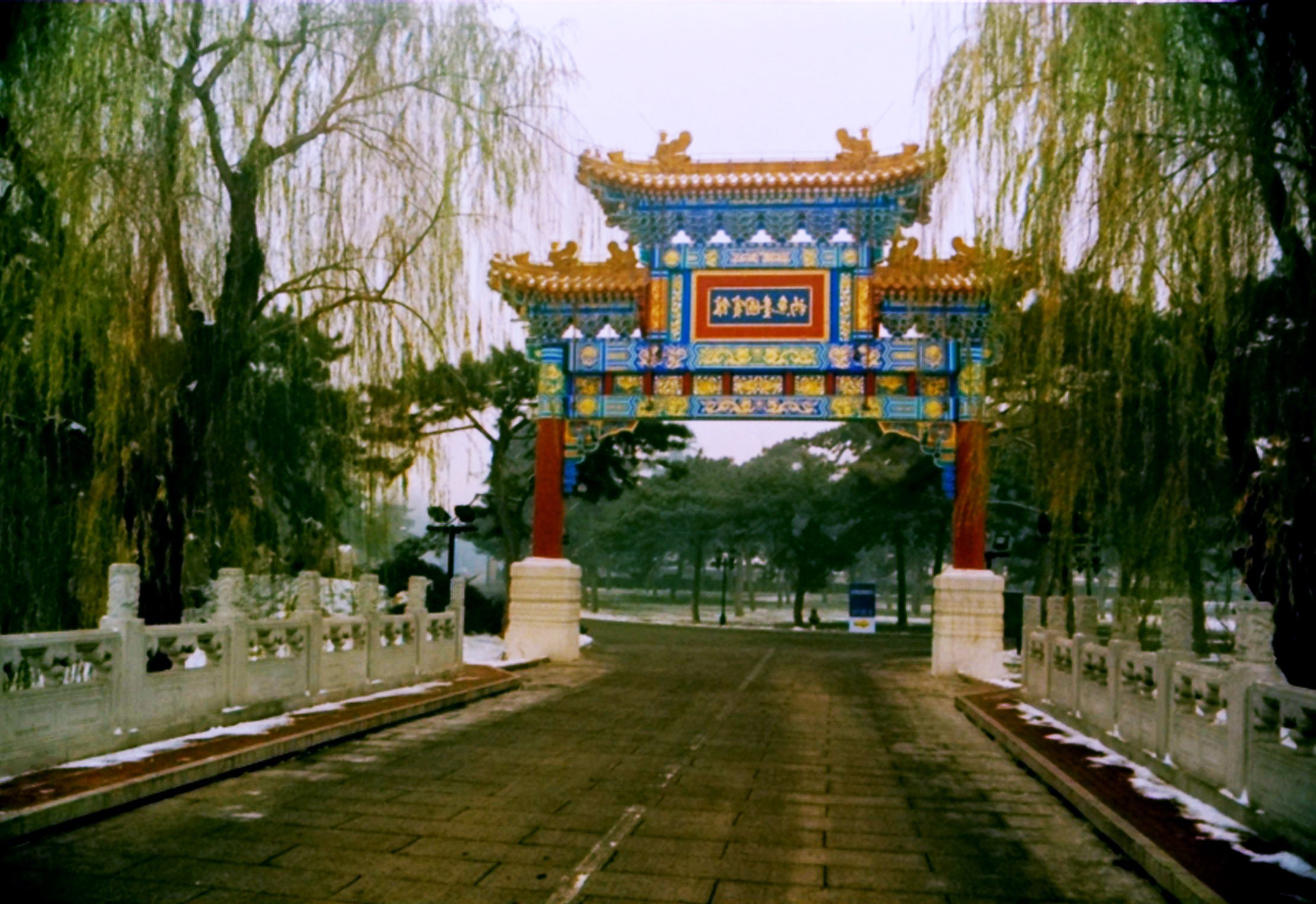 The Diaoyutai State Guesthouse in Beijing, a famous hotel and state guesthouse.